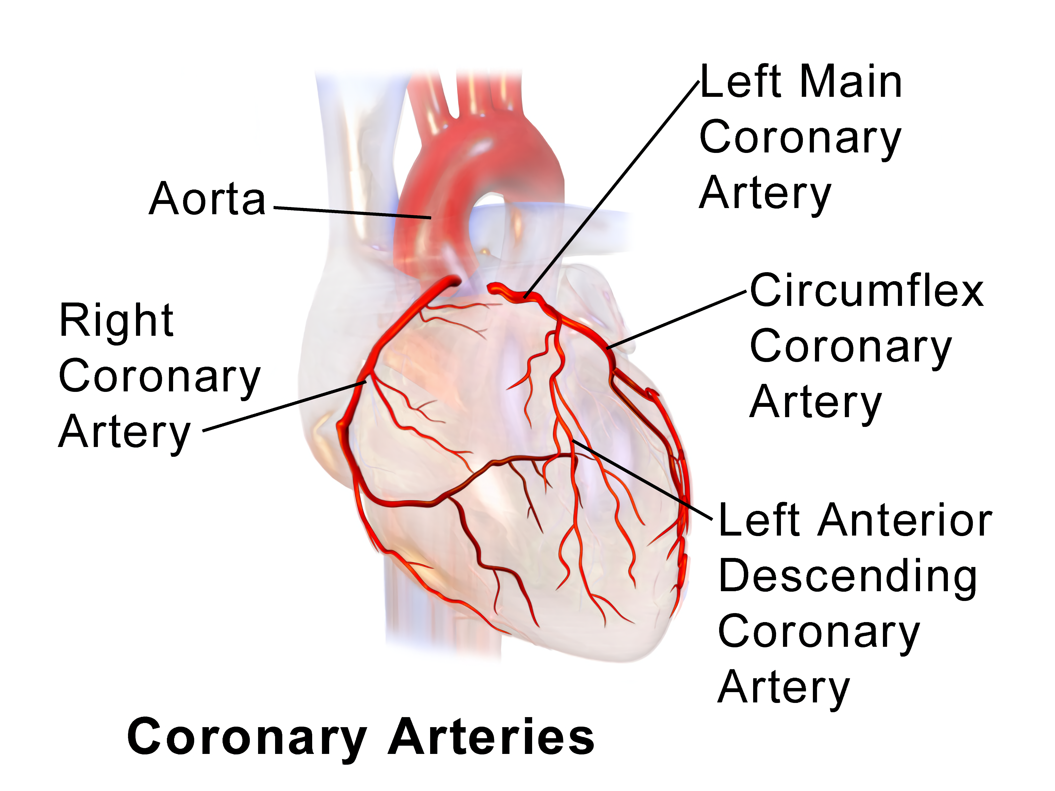 Coronary Arteries. See a full animation of this medical topic.